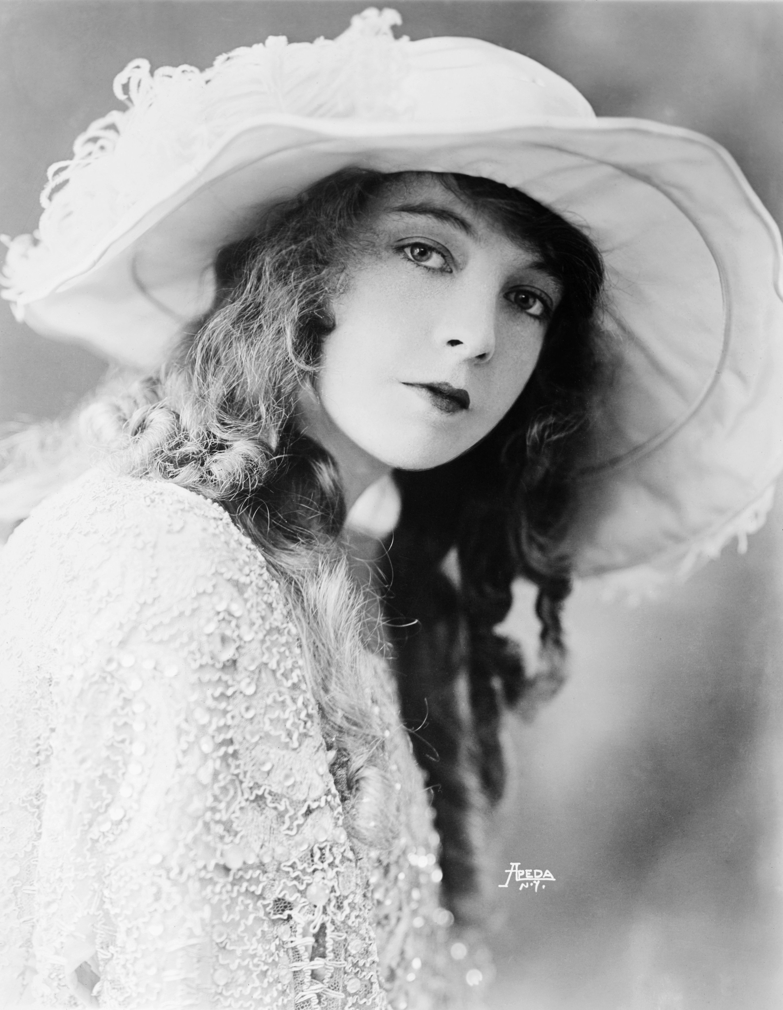 Actress Lillian Gish, edit of Image:Lillian Gish-edit1.jpg, upsampled 200%, levelled at black-point=8 and white-point=226 and downsampled back to original size.